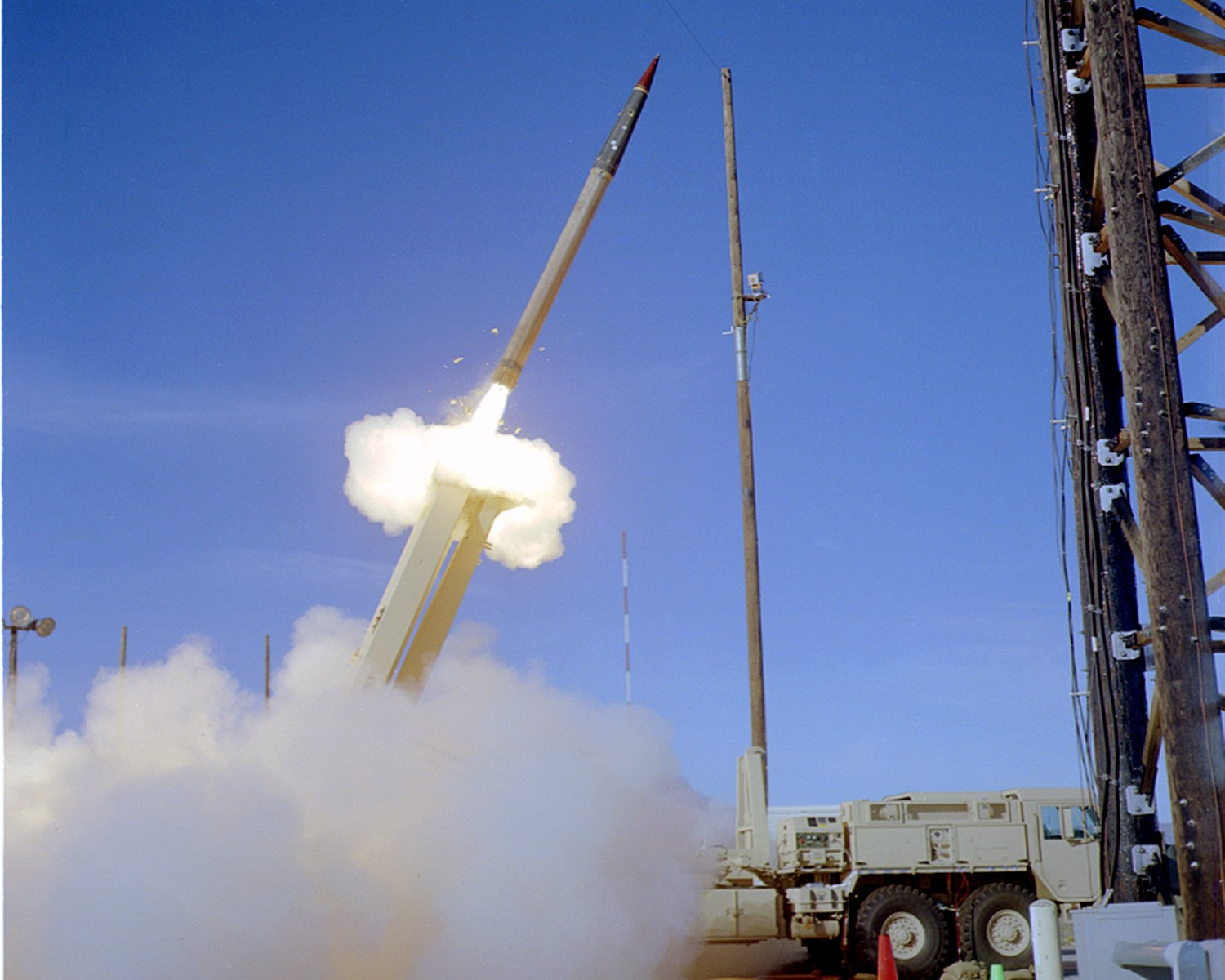 On November 22, 2005 a successful launch was achieved of a THAAD interceptor missile. This test starts a new round of THAAD developmental testing that builds on the investment from earlier THAAD tests, which included two consecutive target intercepts in 1999. It is the first missile defense system that is capable of intercepting a target missile both inside and outside the atmosphere.